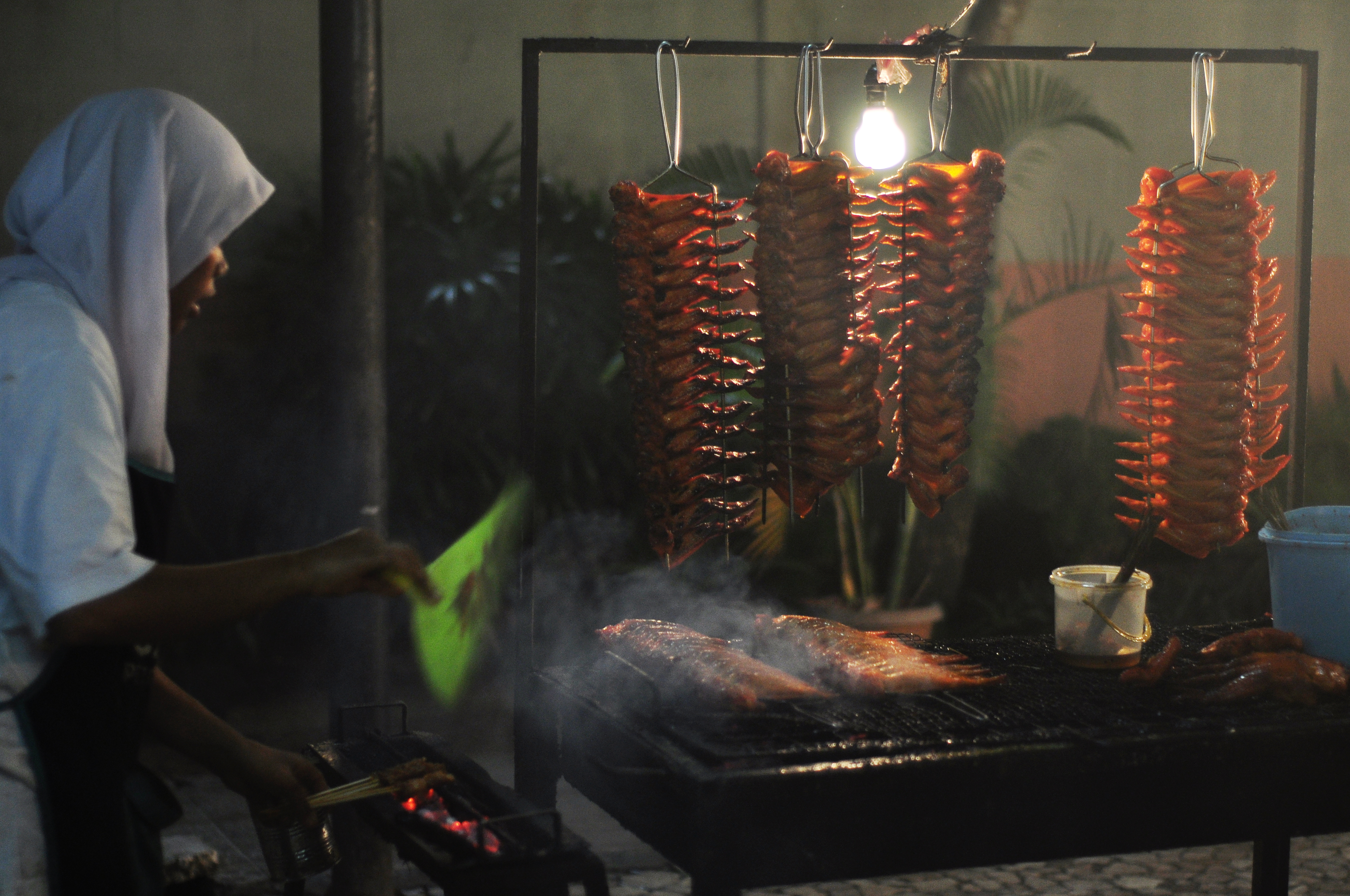 Girl cooking some satay next to a chicken wing grill. Shot in the Tanjung Aru beach (near Kota Kinabalu) food stall court. Sabah (Borneo), Malaysia.